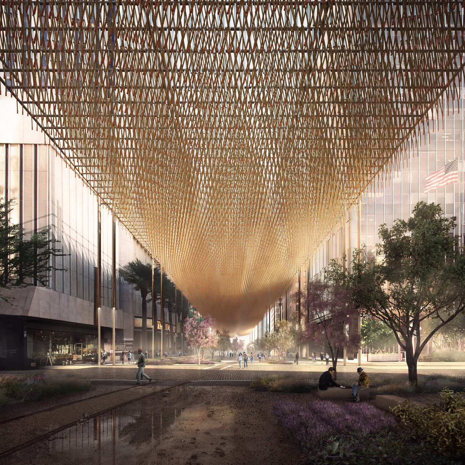 Jacaranda Avenue, winner of the 2016 AIA Phoenix Metro Design Competition